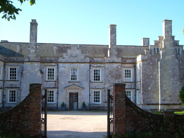 Cadhay House. The north side of the Elizabethan manor house has been given an C18 Georgian facade.